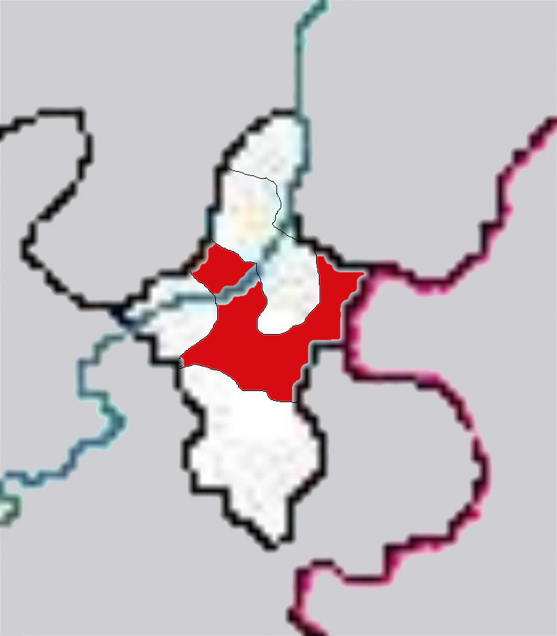 Maps of Ningxia Autonomous Region of China: Wuzhong City